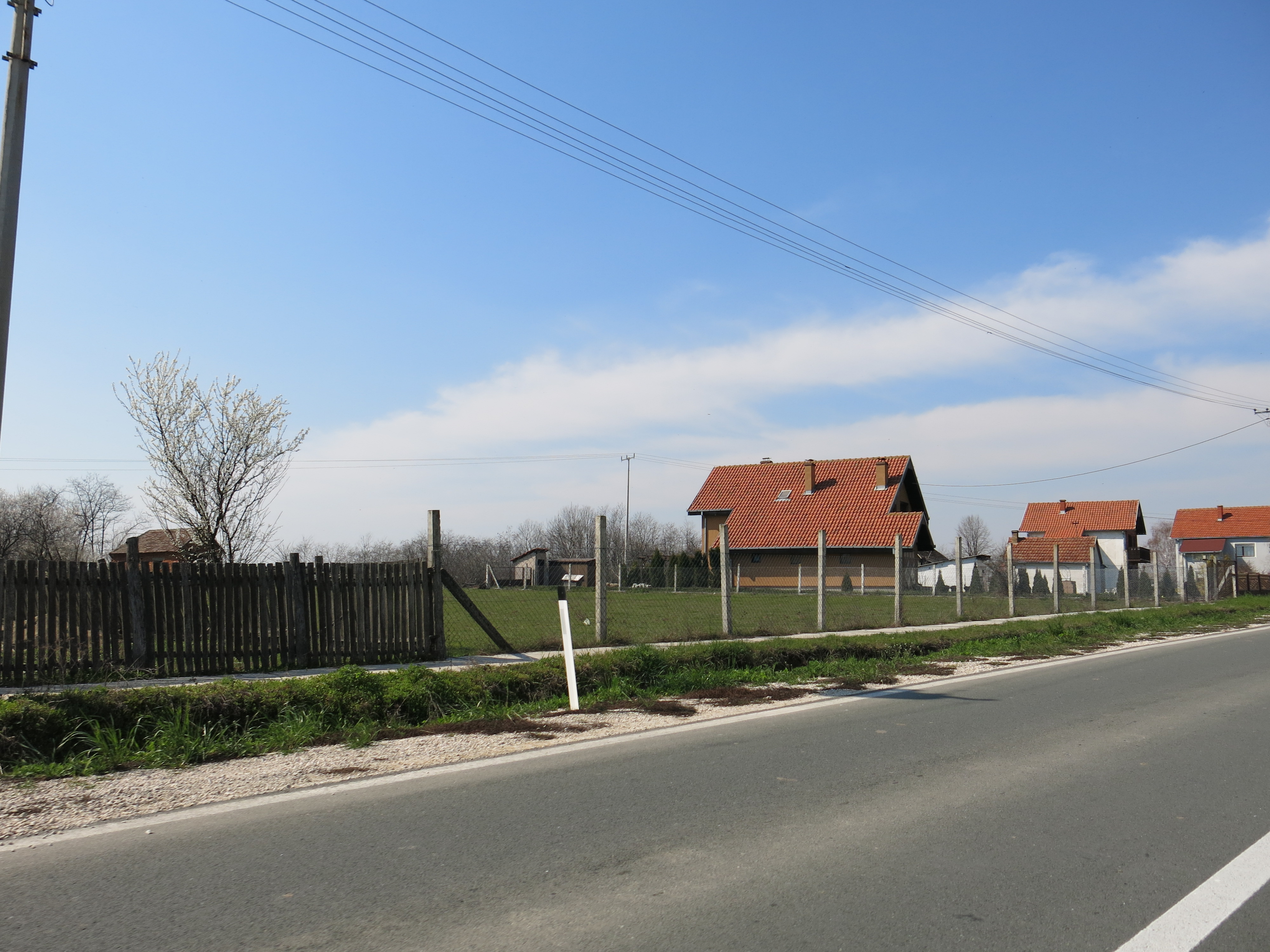 Trbušac, Street